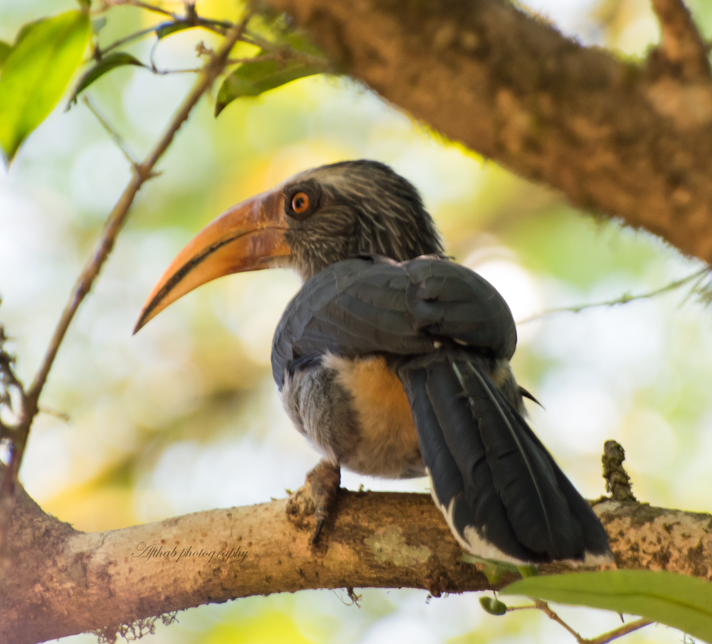 Malabar Grey Hornbill from Vazhachal..